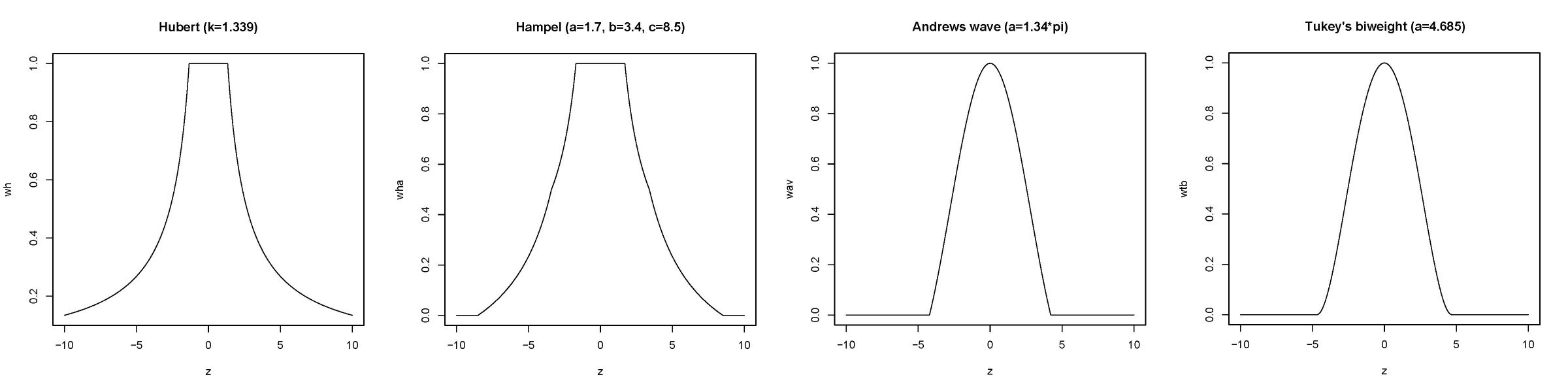 Weight functions for different M estimators. The parameter are choosen after the default values in SPSS.